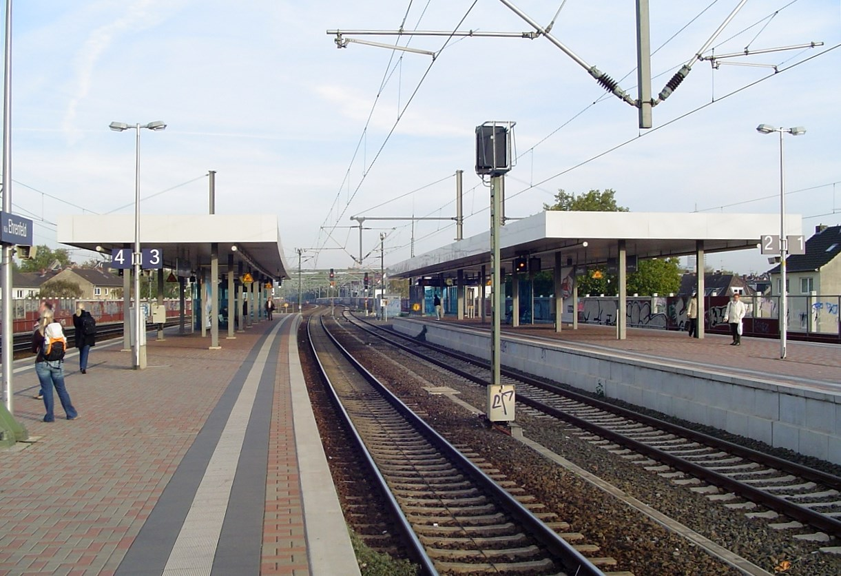 Ehrenfeld Railway Station, Cologne, Germany